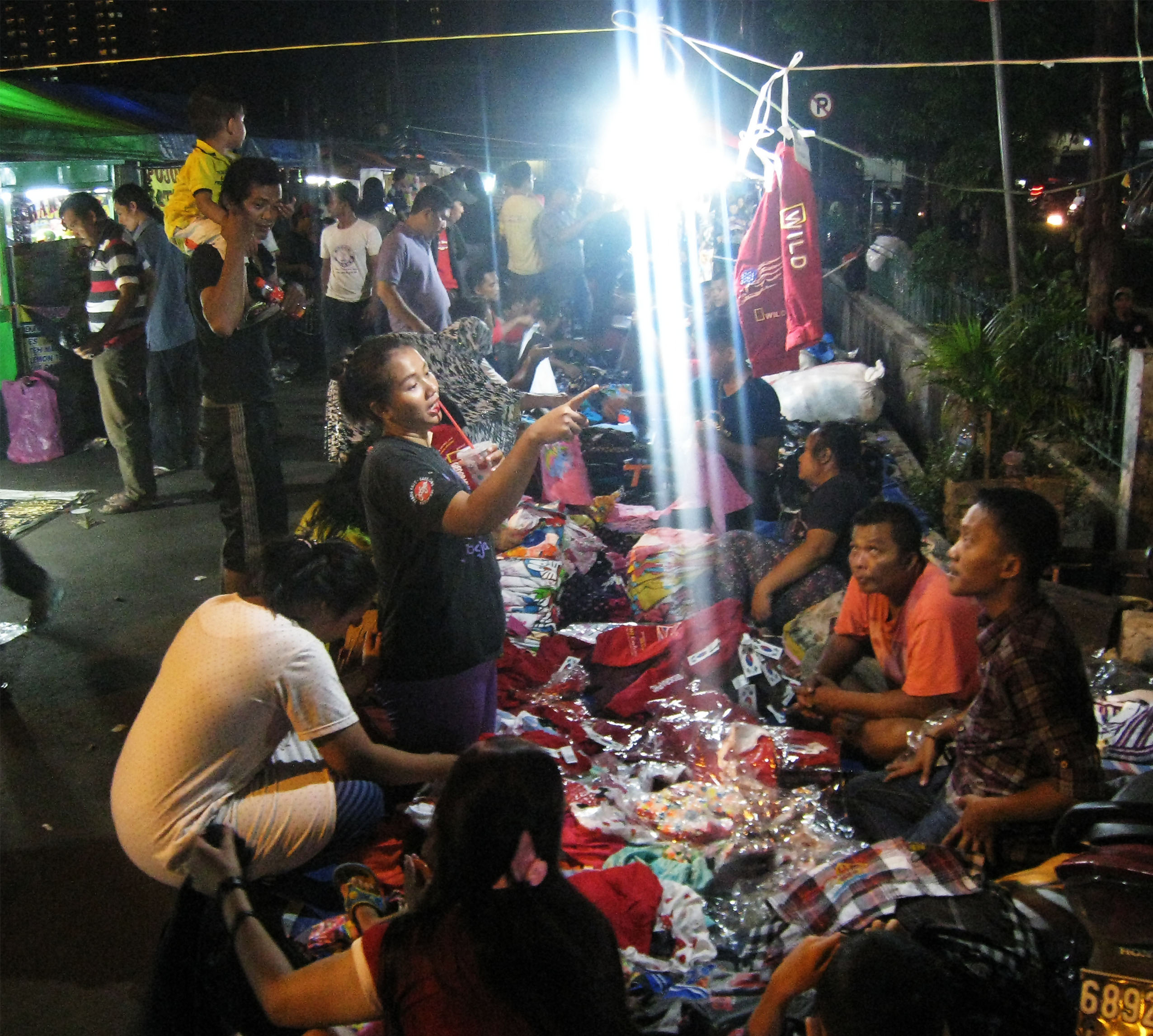 A woman bargaining for clothes on sale at Pasar Malam (night market) every Saturday night at Rawasari, Central Jakarta, Indonesia.